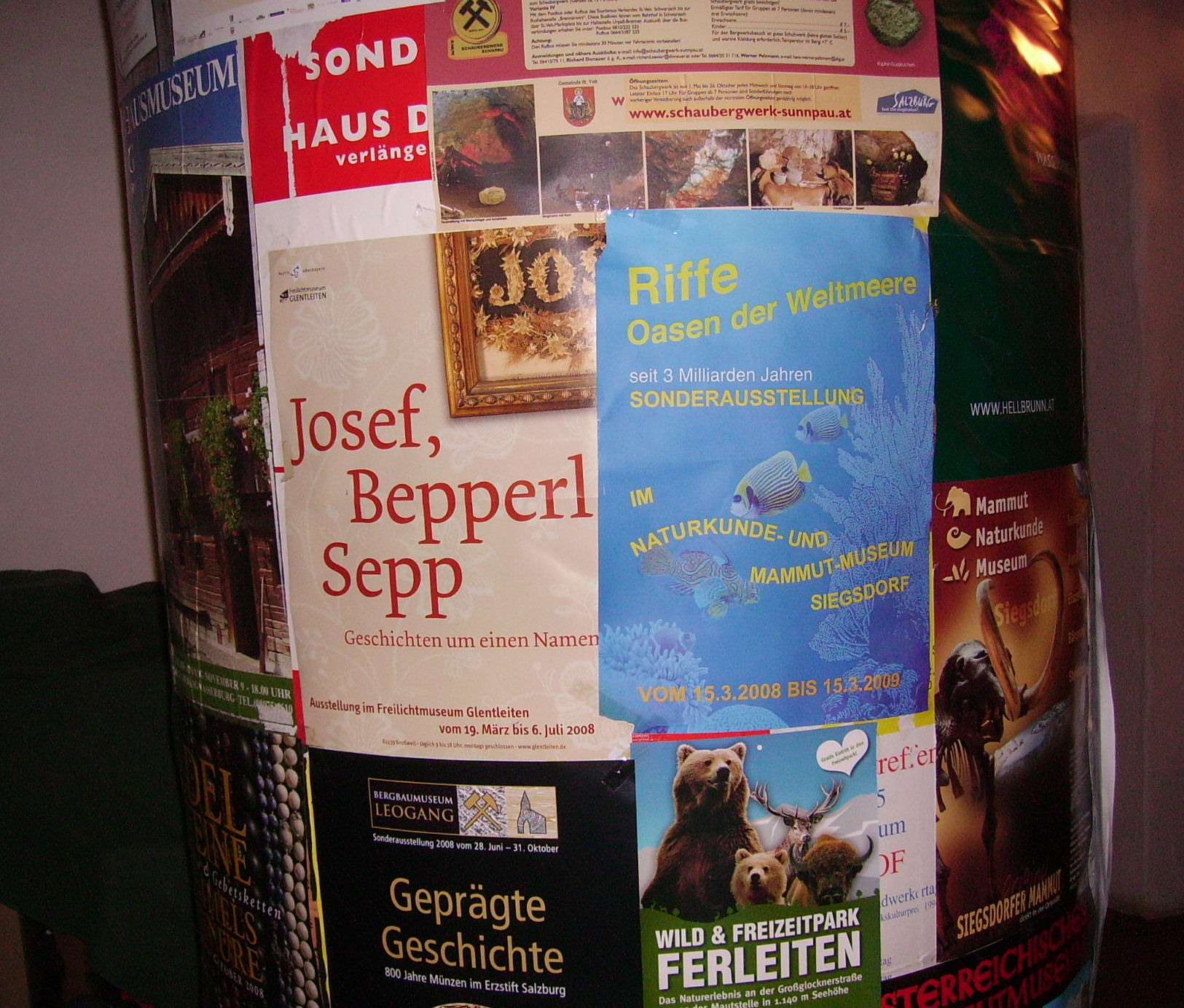 Freilichtmuseum Salzburg in Austria